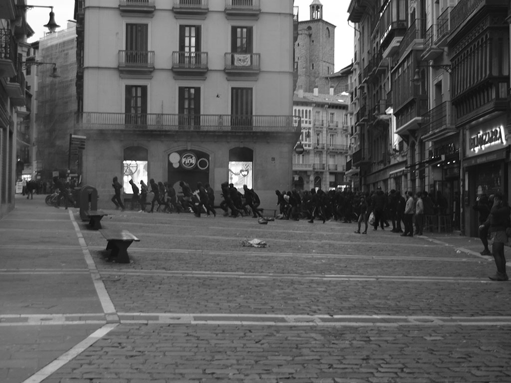 Rally "against repression" in Pamplona and riots with the police before its completion